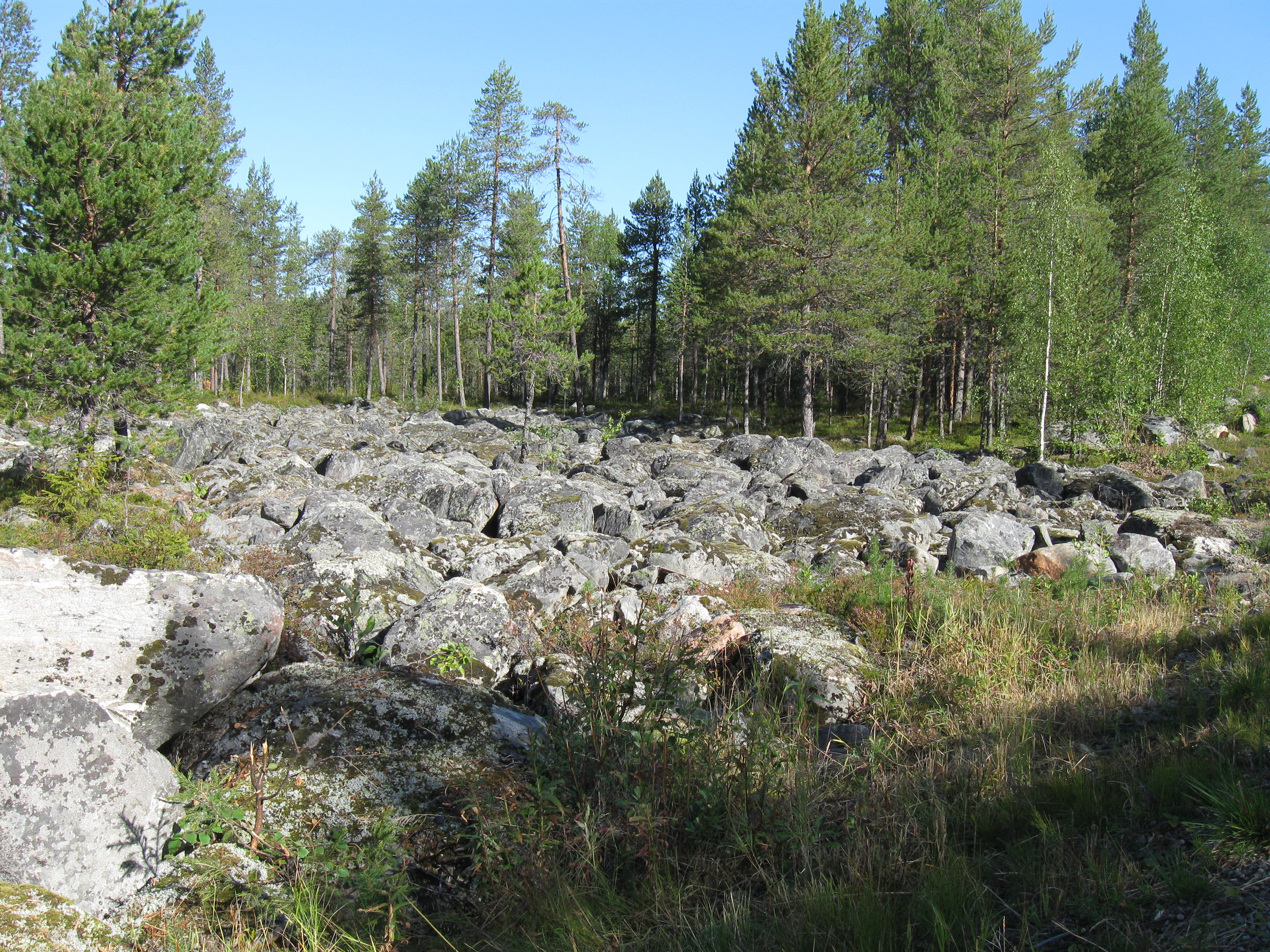 Rocky landscape close to the regional road 944 a few kilometers south of Kemijärvi, Finland.